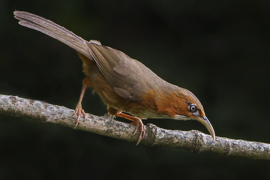 The specie Rusty-cheeked Scimitar Babbler had been photographed from Ghatgarh, Nainital district of Uttarakhand, India on 06.10.2014.